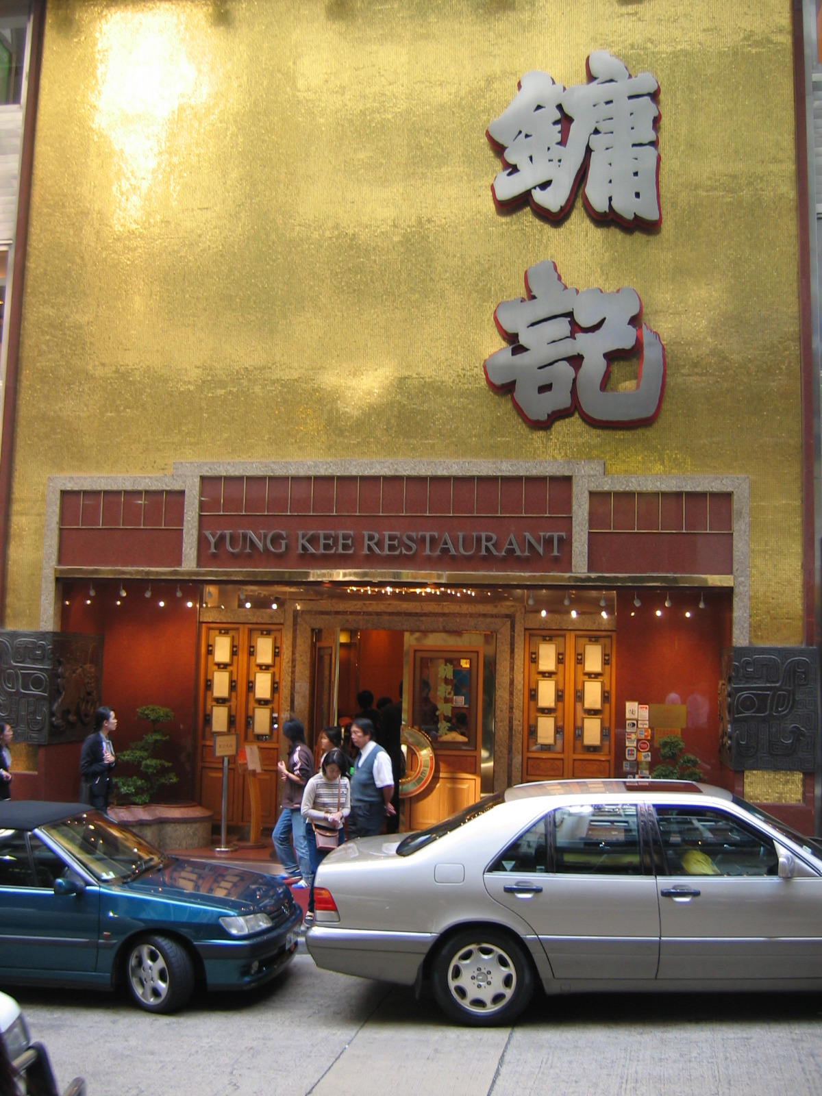 Yung Kee